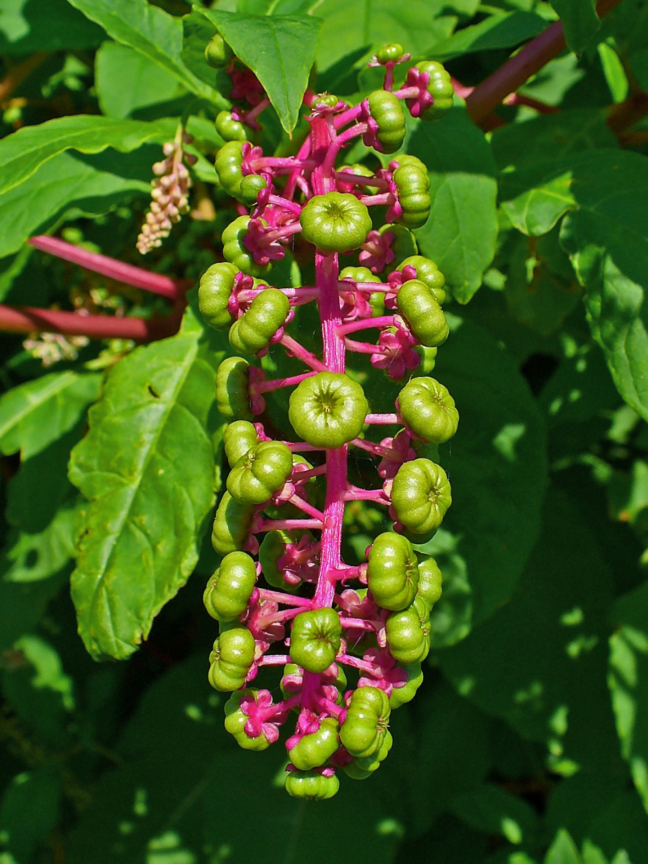 Phytolacca americana, Phytolaccaceae, American Pokeweed, American Nightshade, Cancer Jalap, Coakum, Garget, Inkberry, Pigeon Berry, Pocan Bush, Poke Root, Pokeweed, Redweed, Scoke, Red Ink Plant, developing fruits.